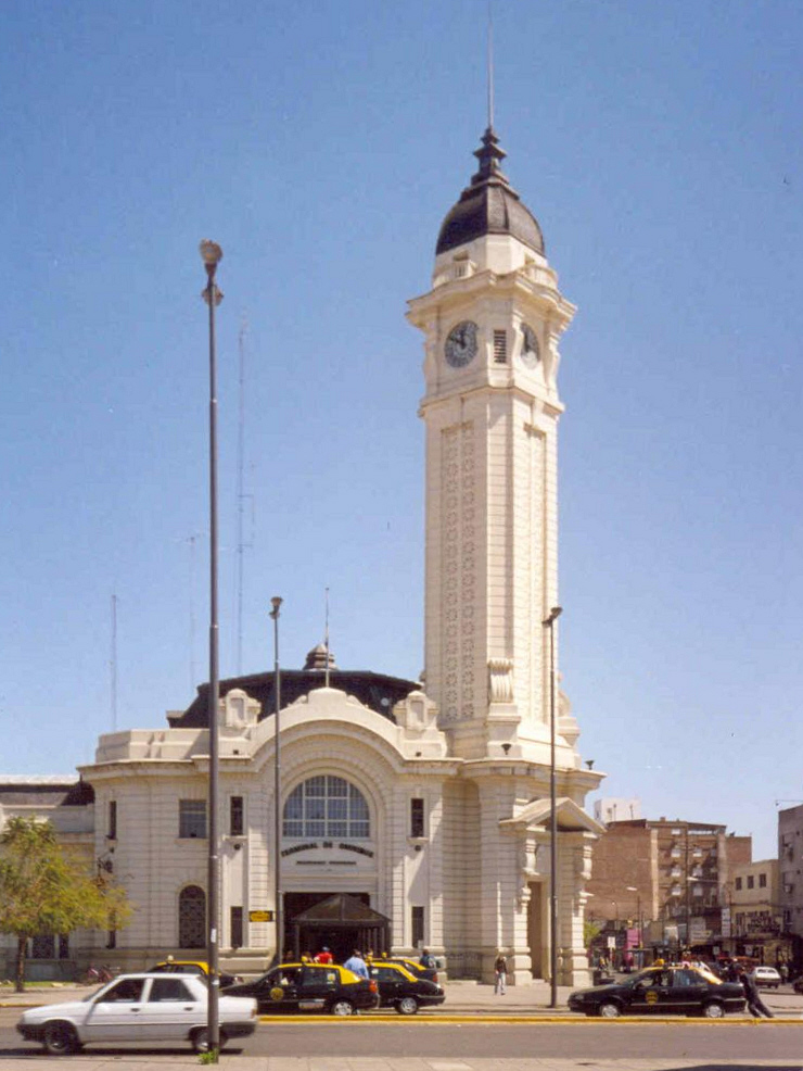 Rosario bus terminal (officially named "Mariano Moreno") in Rosario, Argentina. That was the Rosario train station of defunct Province of Santa Fe Railway.